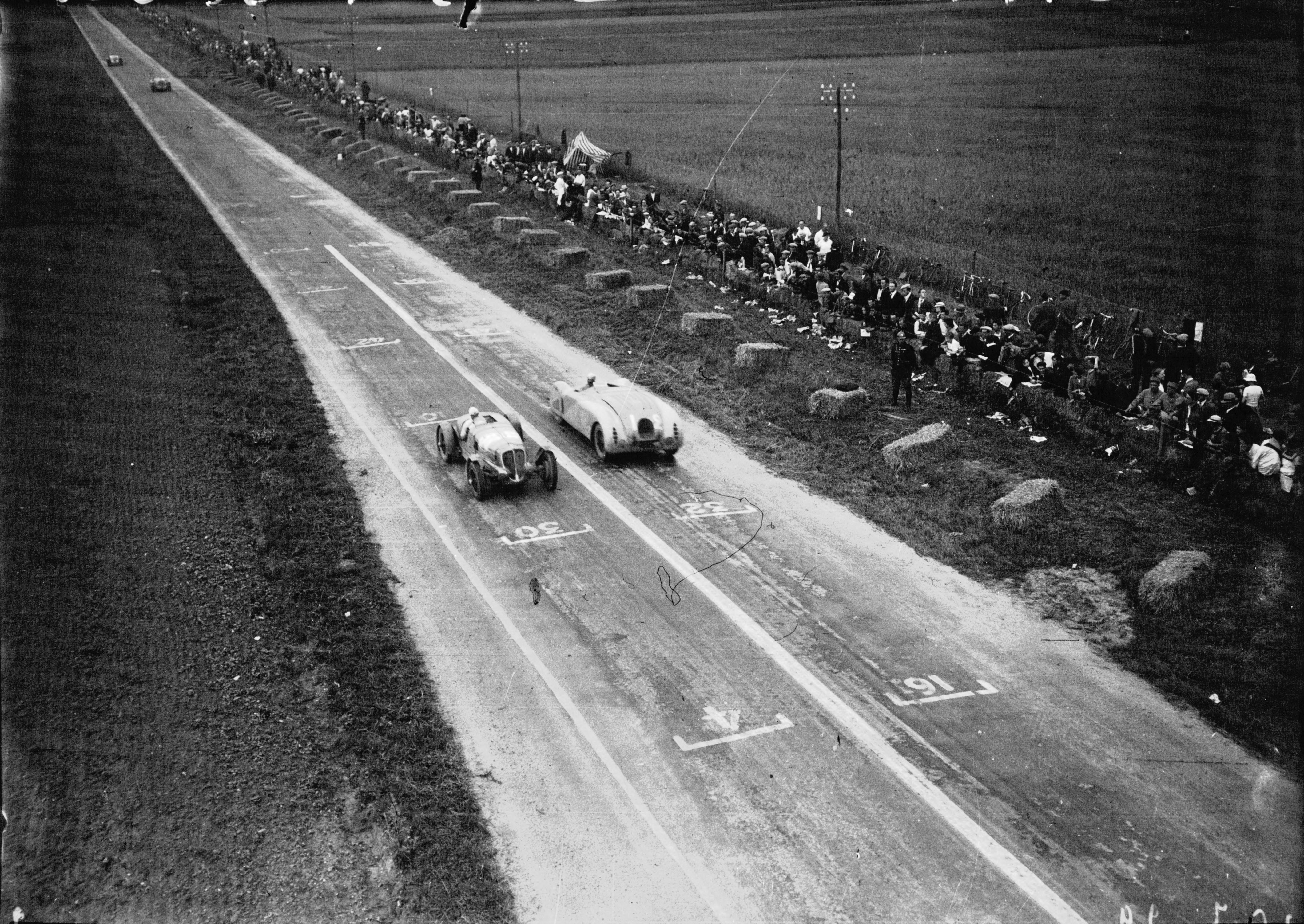 1936 Grand Prix de la Marne race